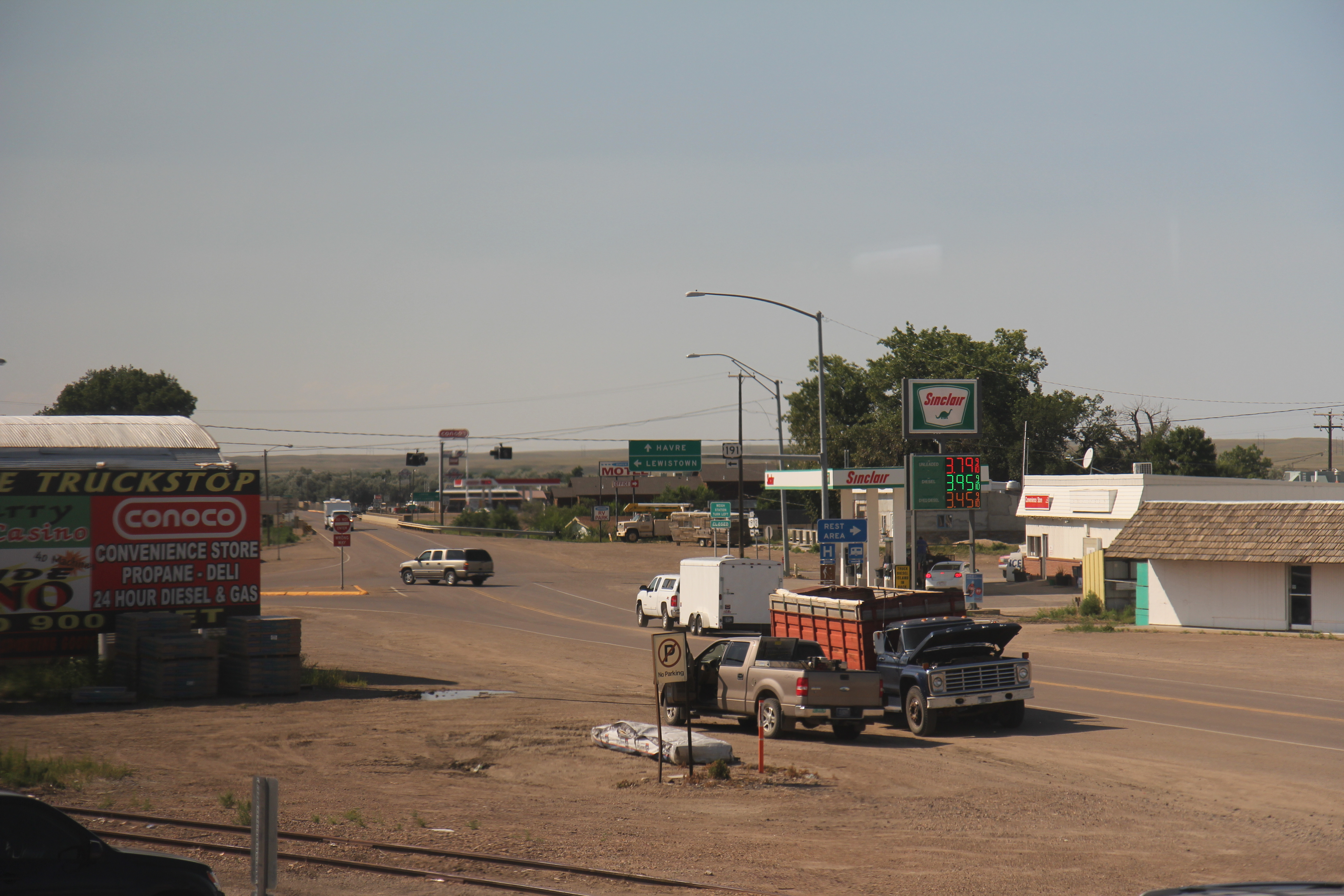 U.S. Route 2 merges with U.S. Route 2 in Malta, Montana from Amtrak train.